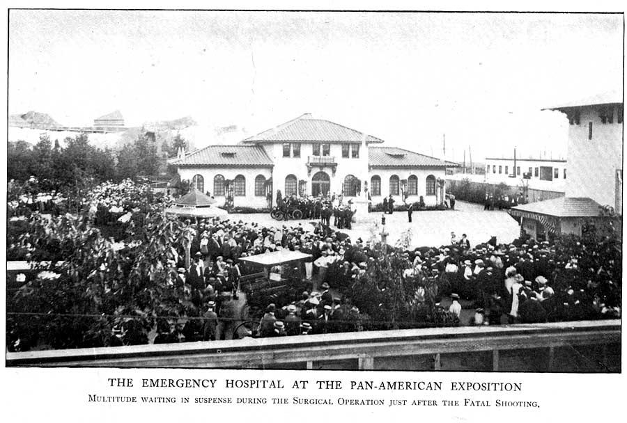 Emergency Hospital at the Pan-American Exposition in 1901, the crowd is awaiting the result of the surgical operation just after President William McKinley was shot by Leon Czolgosz.